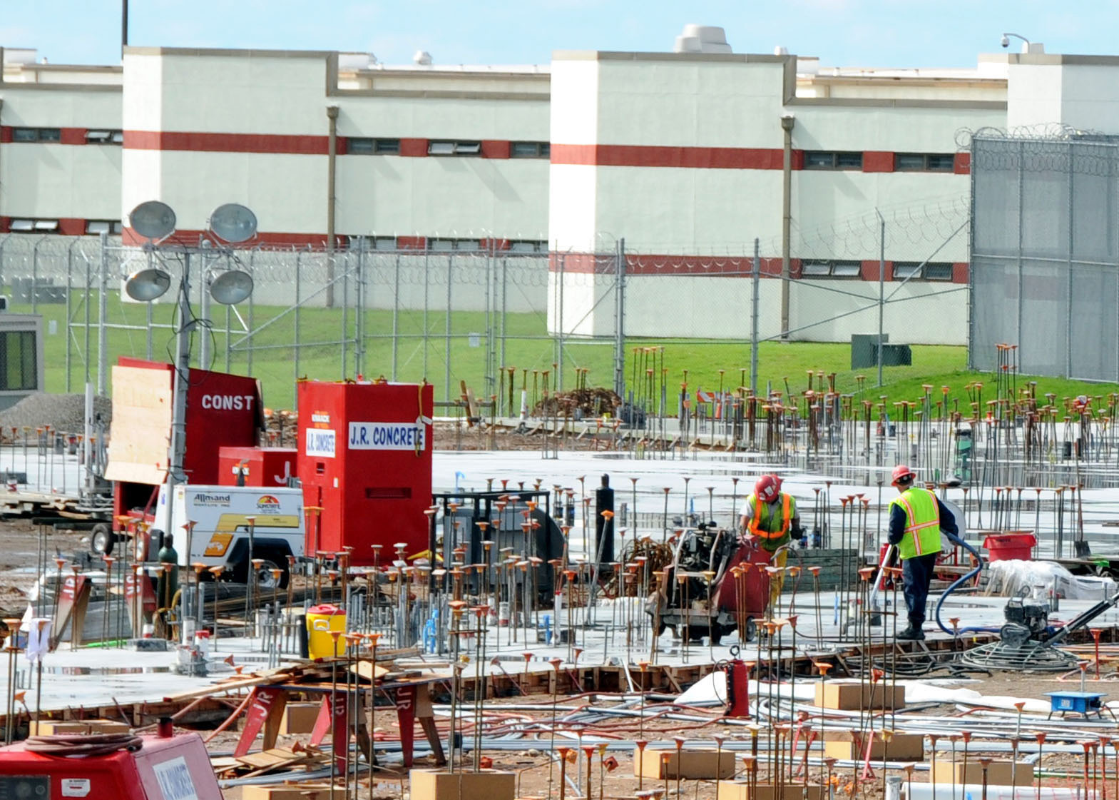 MIRAMAR, Calif. (Feb. 20, 2010) Construction has begun to expand the confinement facility at Naval Consolidated Brig in Marine Corp Air Station Miramar to 600 occupants. (U.S. Navy photo by Mass Communication Specialist 1st Class Thomas E. Coffman/Released)